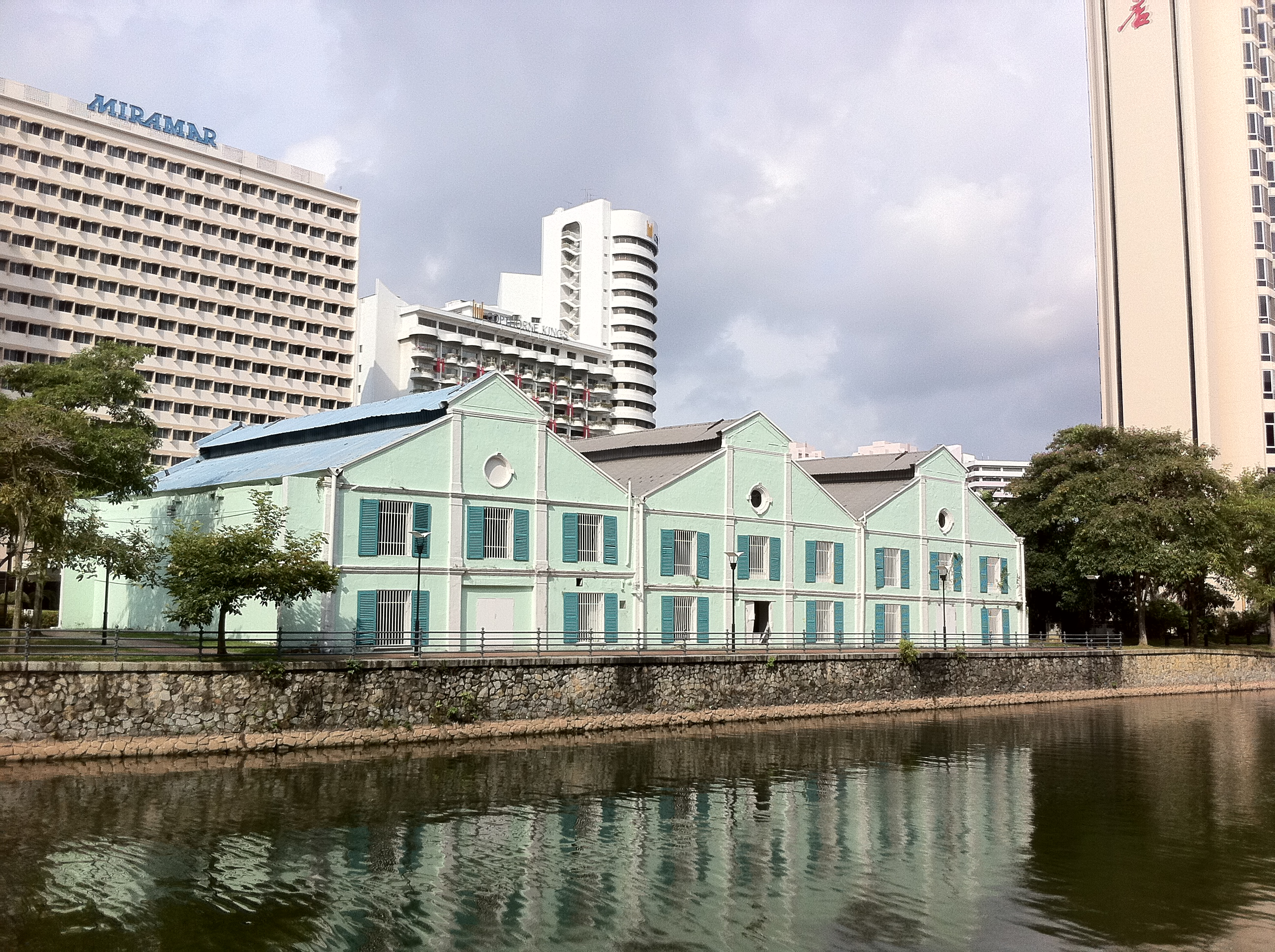 Old Warehouses along the Singapore River at Robertson Quay